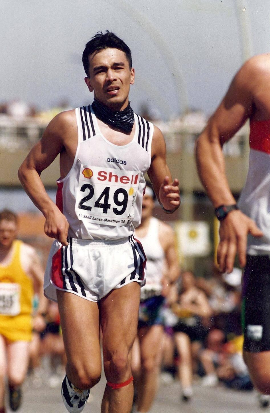 This is my pics from the Olympic Trails.